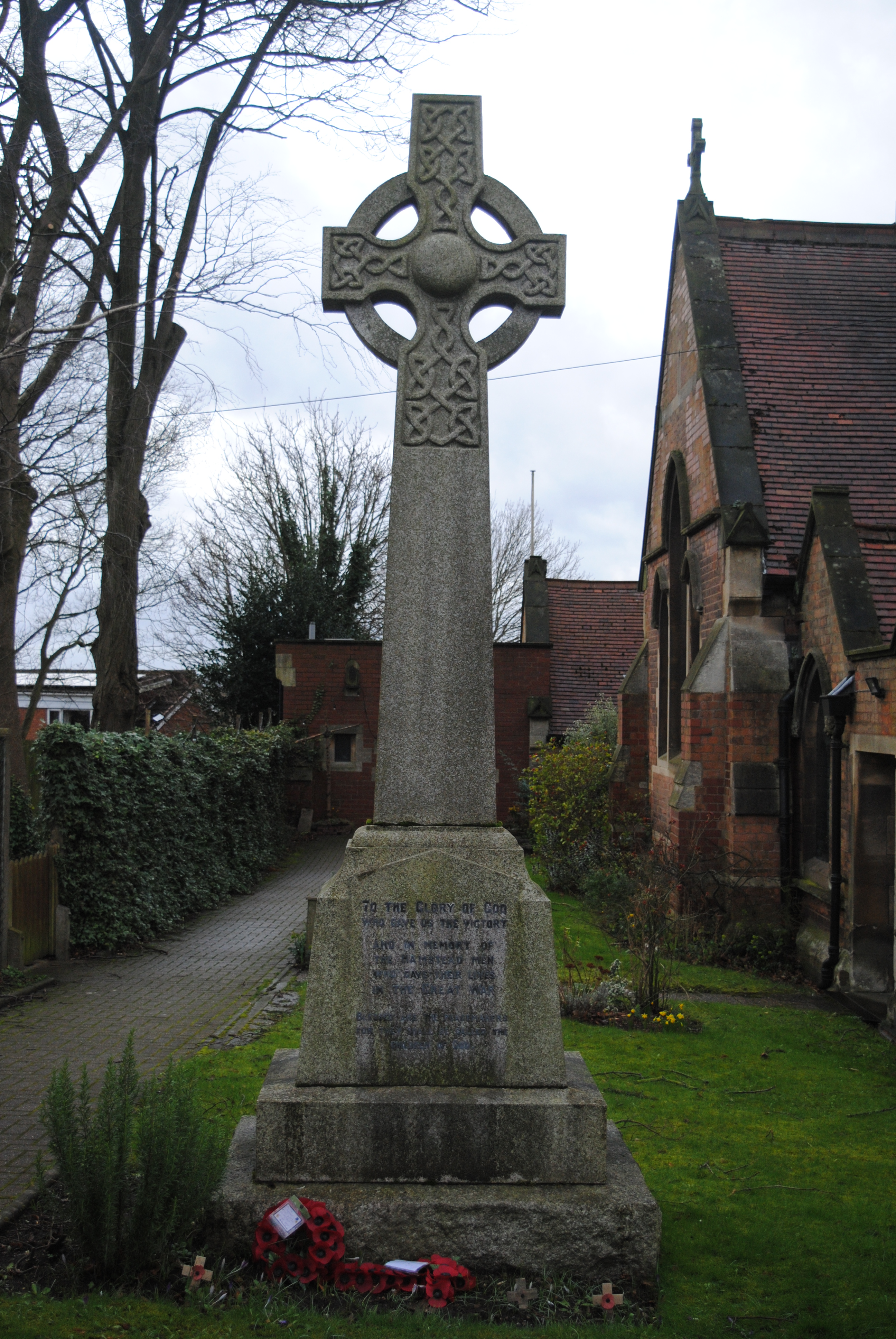 Hamstead War Memorial, at Saint Paul's Church, Hamstead, Birmingham, on a grey, wet day.